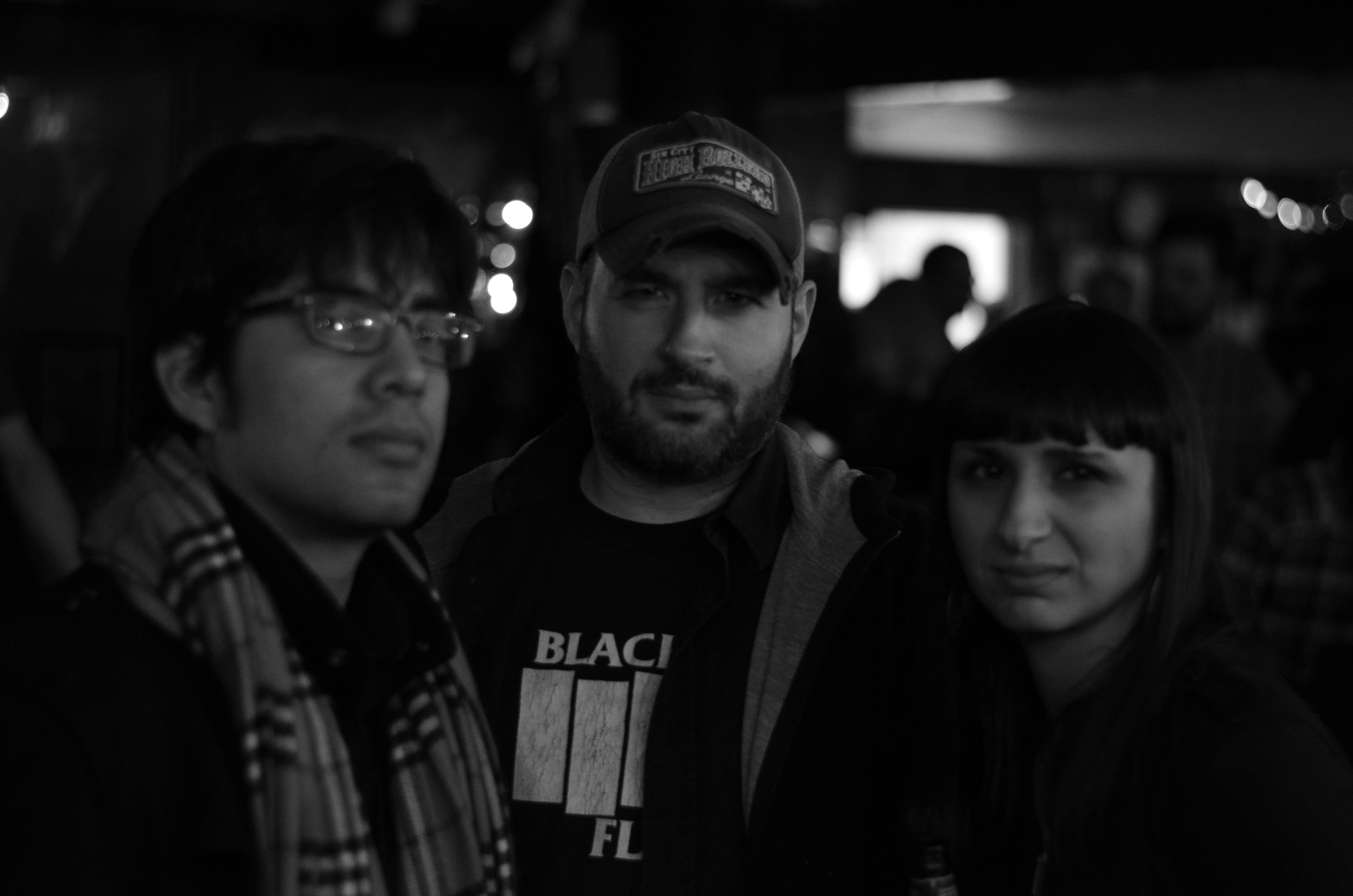 Band shot of Fairmont from Rent Party in South Orange, New Jersey.